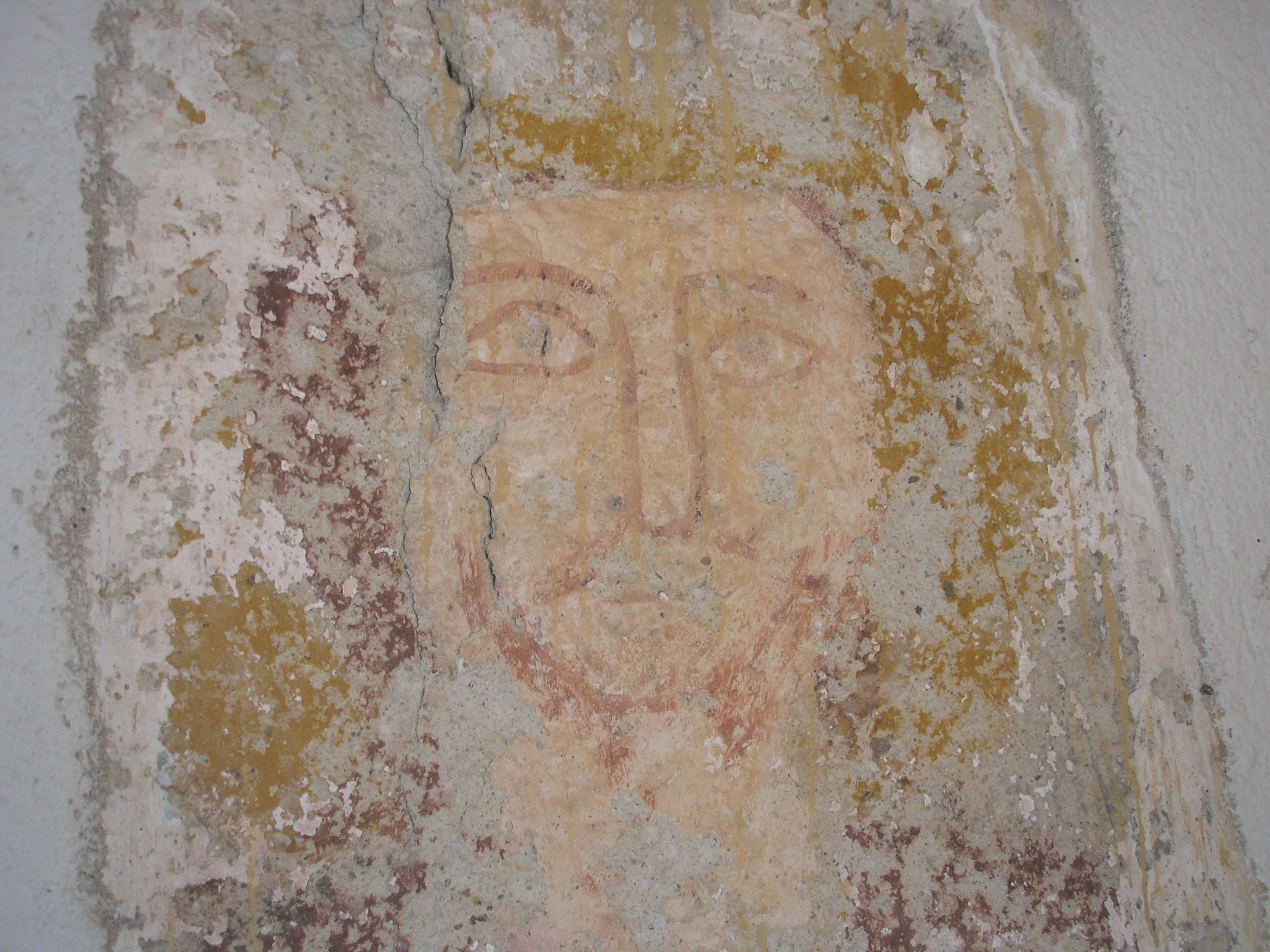 Fresco in the church of Abaújvár (Hungary)